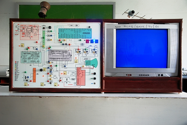 TV lab of rizvi college of engineering's electronics and telecommunication engineering department.